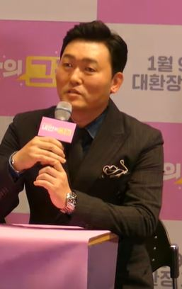 Lee Jun-hyeok at The Dude in Me press conference